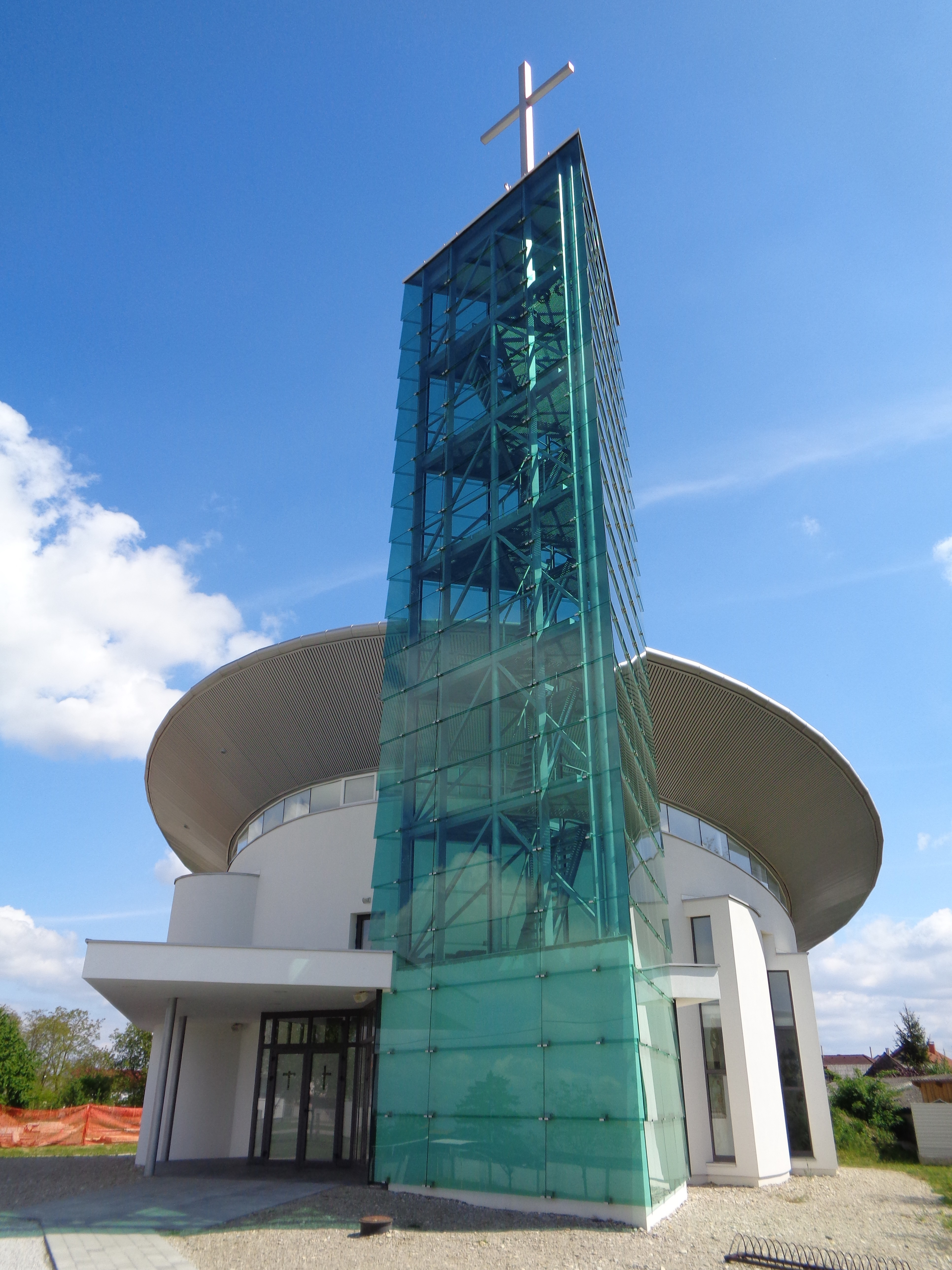 Church of Mary Help, Strahoninec, Međimurje County, Croatia - northwest view